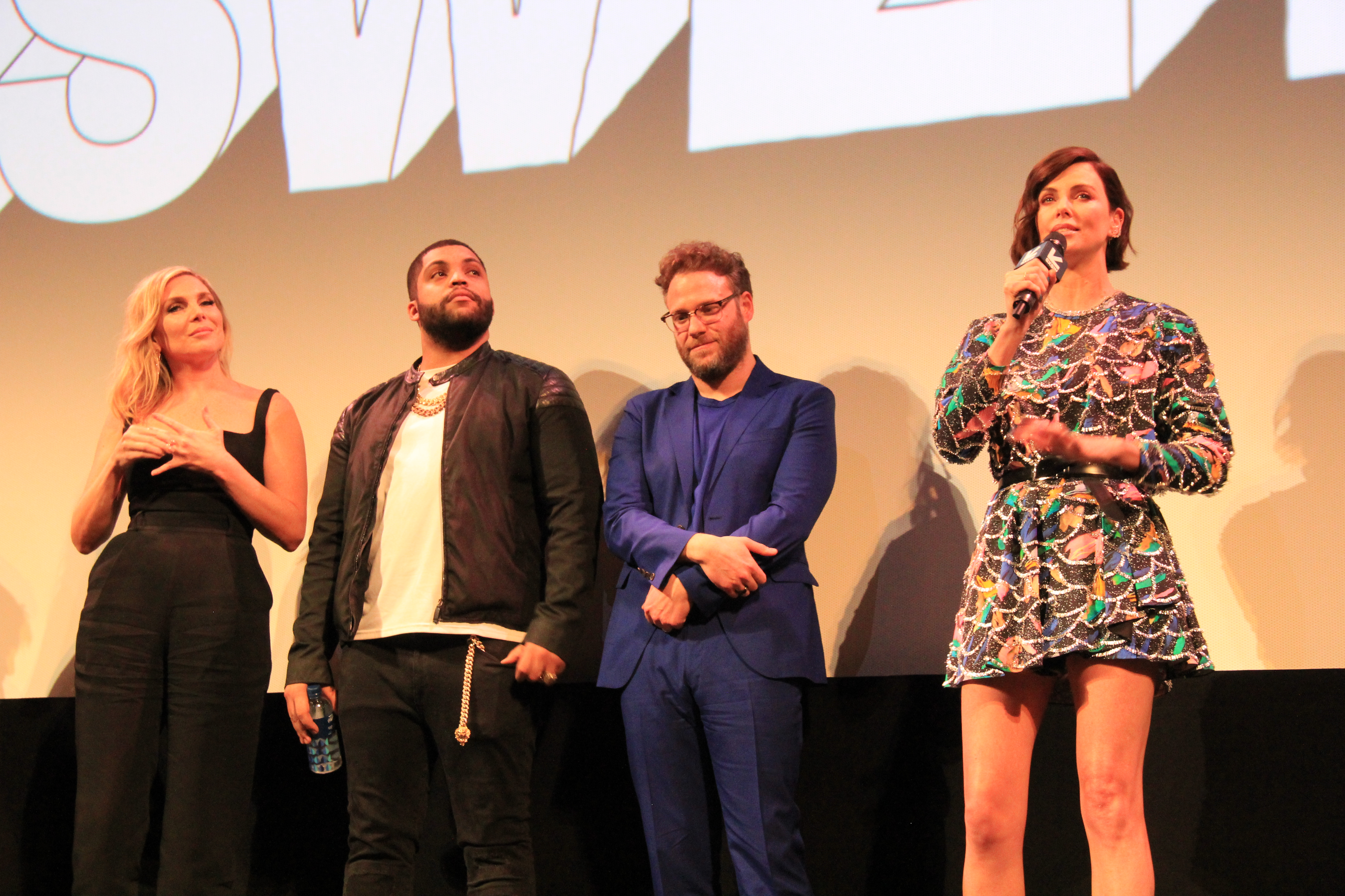 SXSW 2019 - Cast of Long Shot: Charlize Theron, Seth Rogen, O'Shea Jackson Jr., June Diane Raphael at SXSW 2019